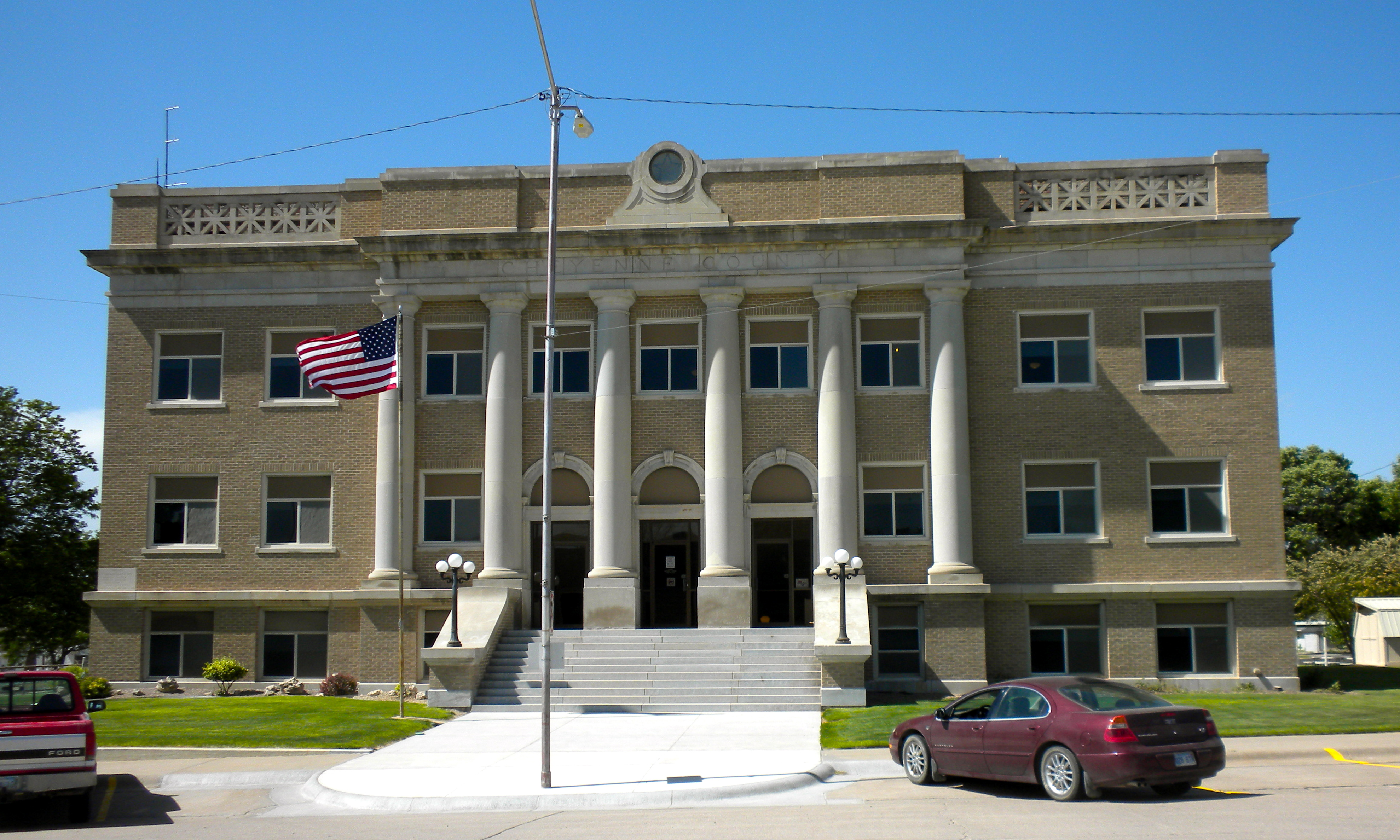 Cheyenne County Courthouse on the NRHP since April 26, 2002. At 212 E. Washington St., St. Francis, Kansas. Right next to the St. Francis (Henry Sawhill) City Park, which, believe it or not, I didn't see! A hot dusty town in July at the very western edge of Kansas